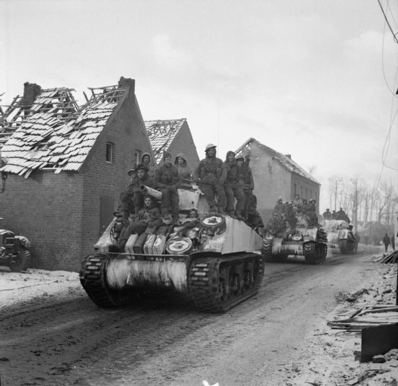 The British Army in North-west Europe 1944-45 Infantry of 1st Glasgow Highlanders ride on white-washed Sherman tanks of 8th Armoured Brigade in Hongen, 19-20 January 1945.